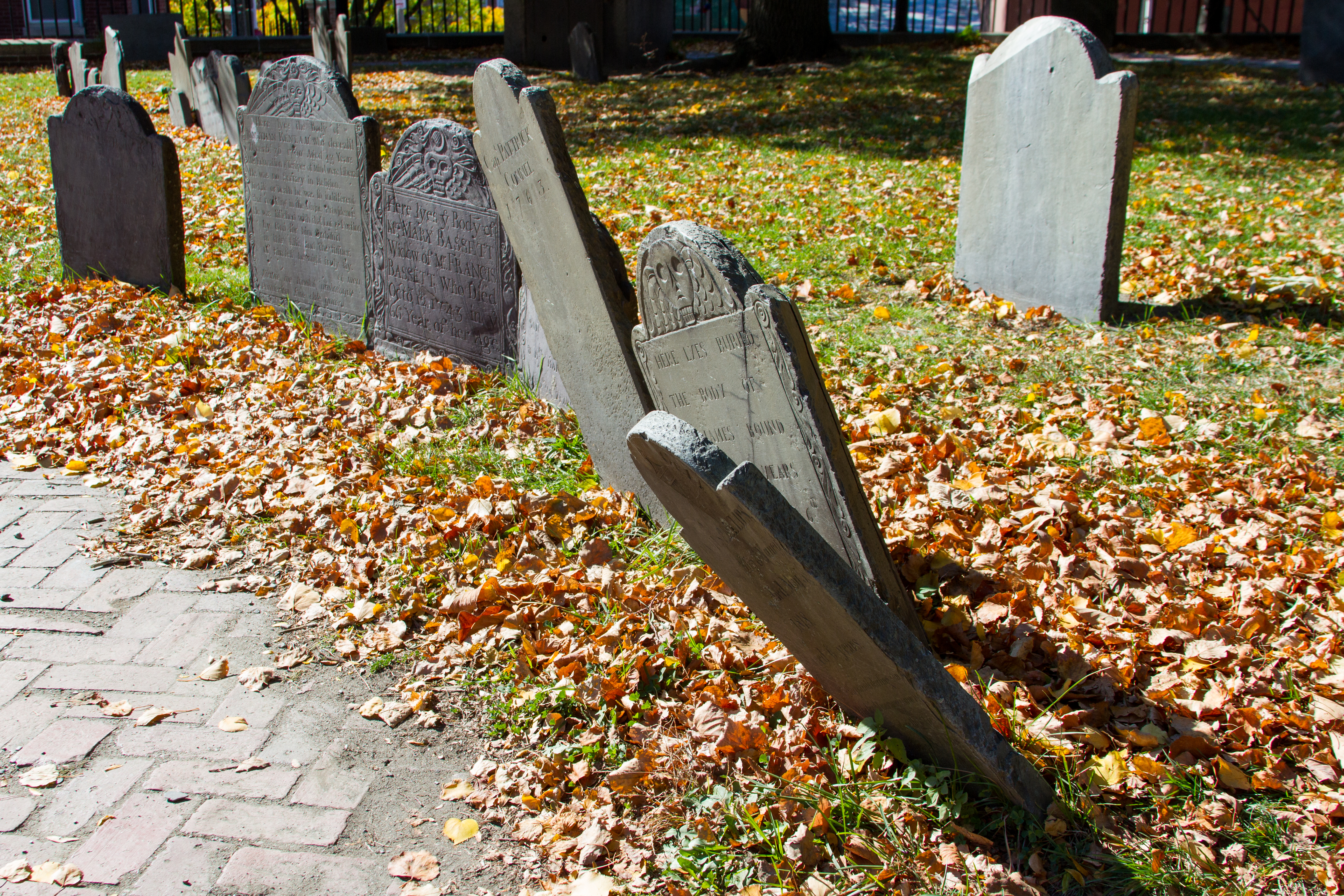 Several headstone in the Copp's Hill Burying Ground in Boston, MA. Many of these headstone are from the 18th and 19th century.